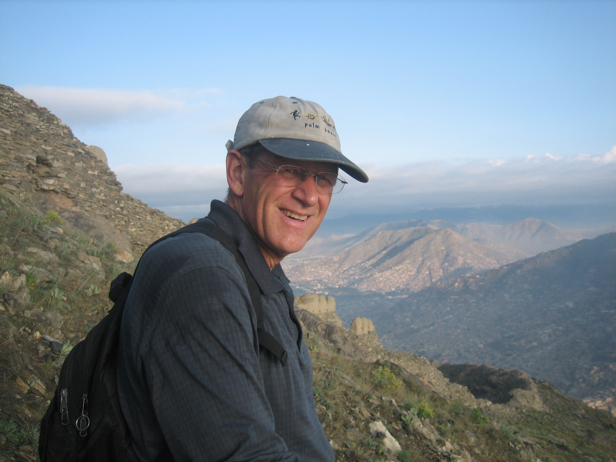 A photograph of Tom Little taken from a hike in Kabul, Afghanistan.